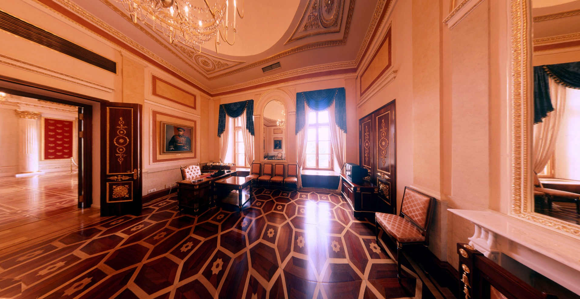 Low reception. Senate Palace. Moscow Kremlin